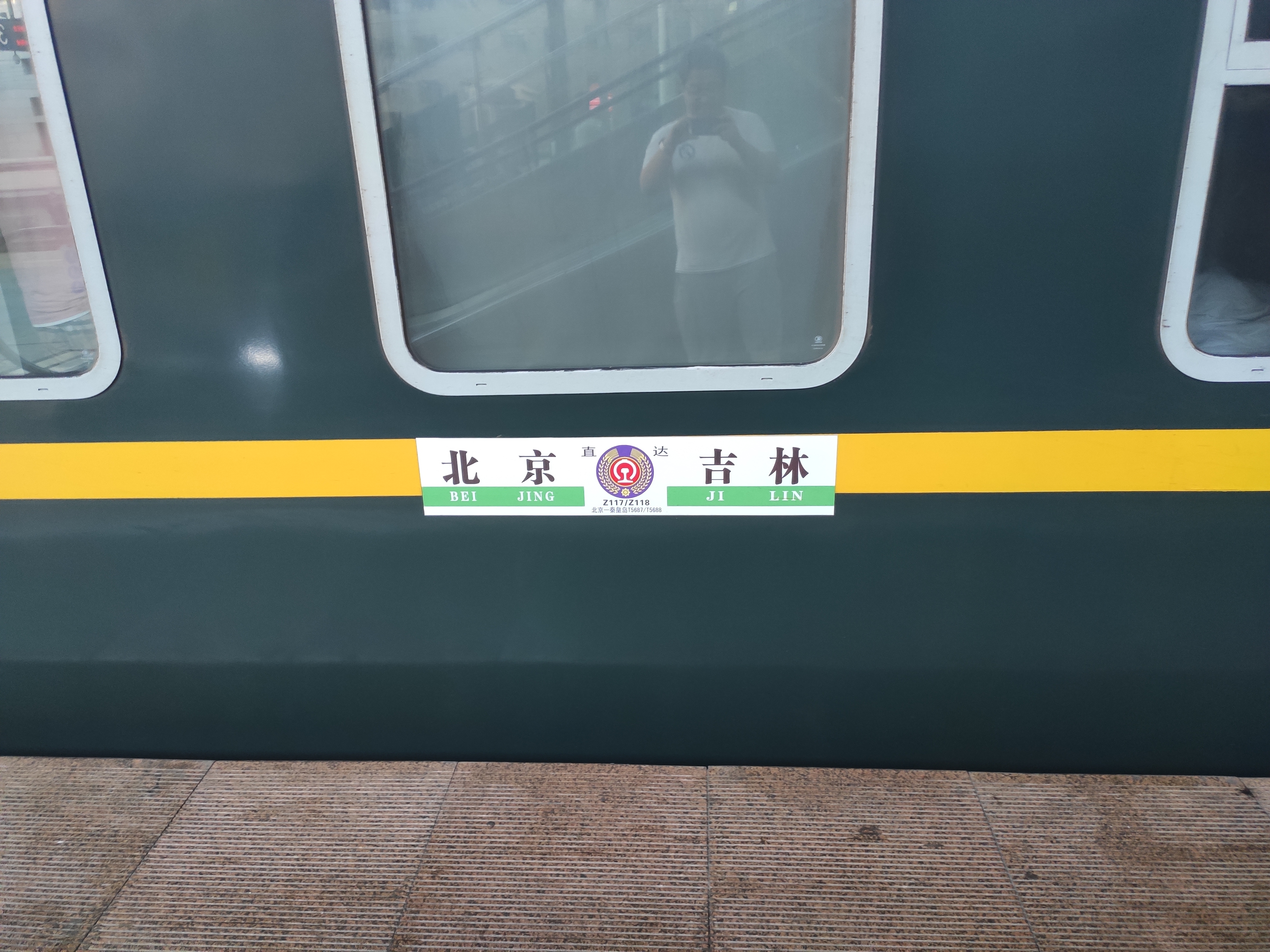 Sequence: Hadawan -0T5315- Jilin -Z118- Beijing -T5687- Qinhuangdao -T5688- Beijing -Z117- Jilin -0T5316- Hadawan.